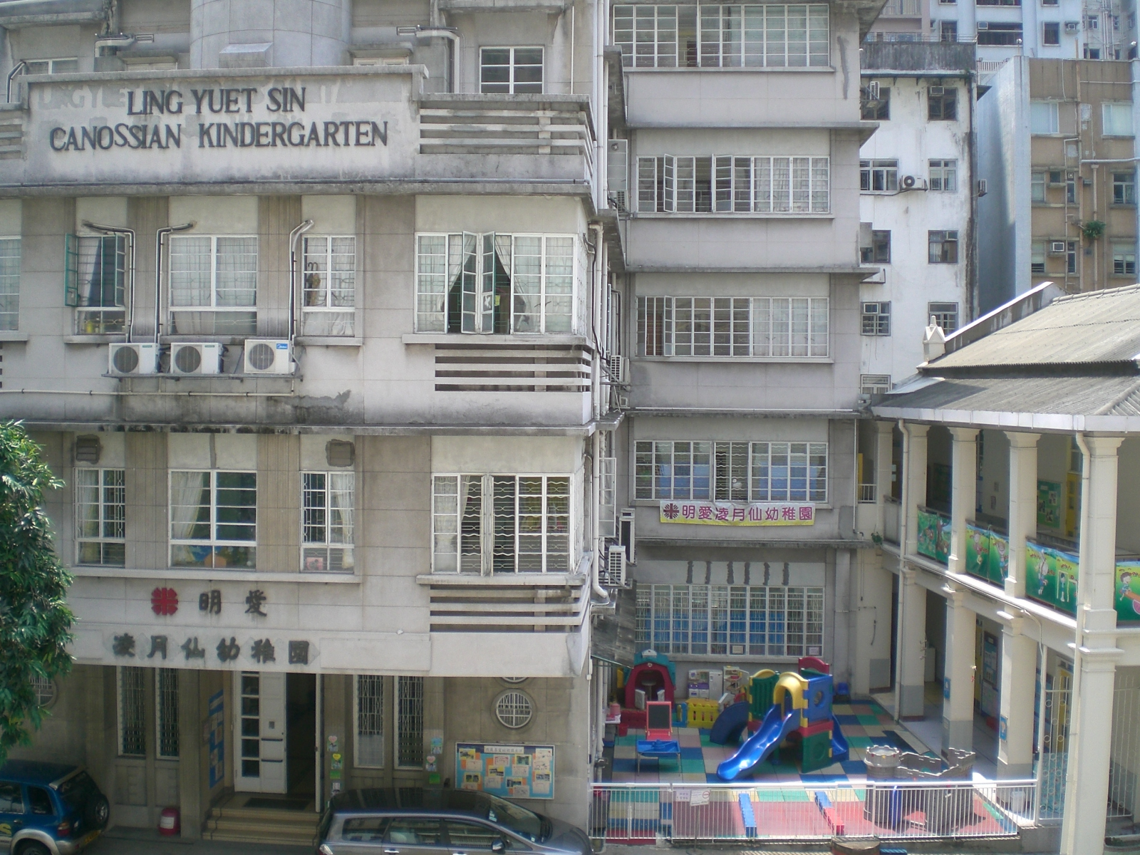 明愛凌月仙幼稚園